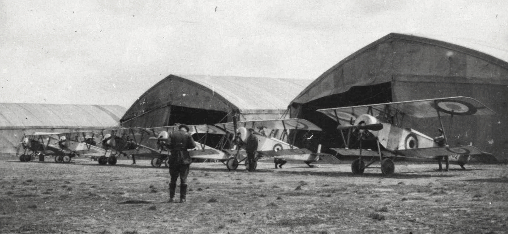 Lineup of RNAS Nieuport 11s, with a Nieuport 10 closest to the camera at their airfield at Dunkirk in February 1915